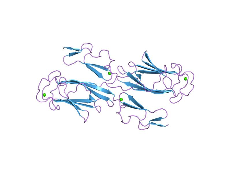 Cartoon representation of the molecular structure of protein registered with 1szb code.